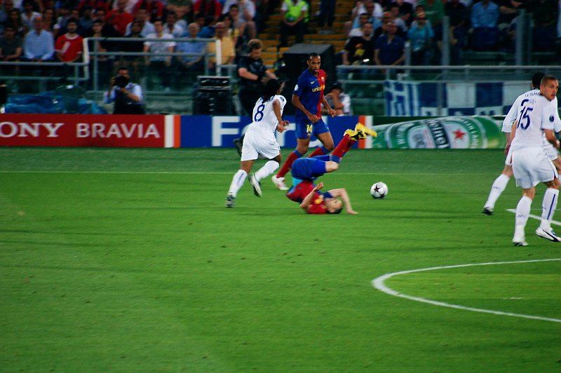 Andrés Iniesta goes head-over-heels after being fouled by Anderson Luis de Abreu Oliveira on the edge of the Manchester United penalty area during the 2009 UEFA Champions League Final